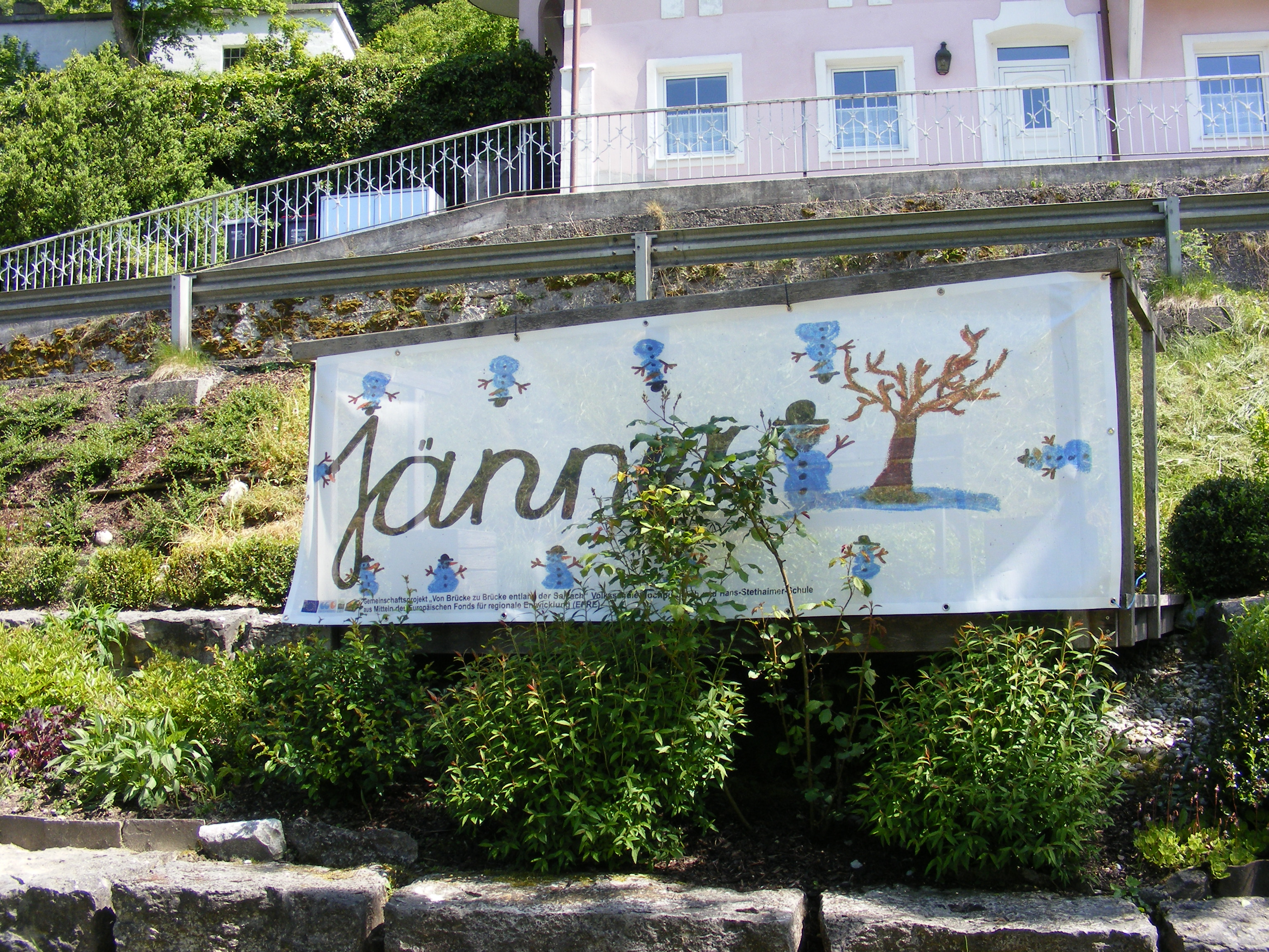 Austrian word "Jänner" corresponds to German "Januar", both meaning "January".